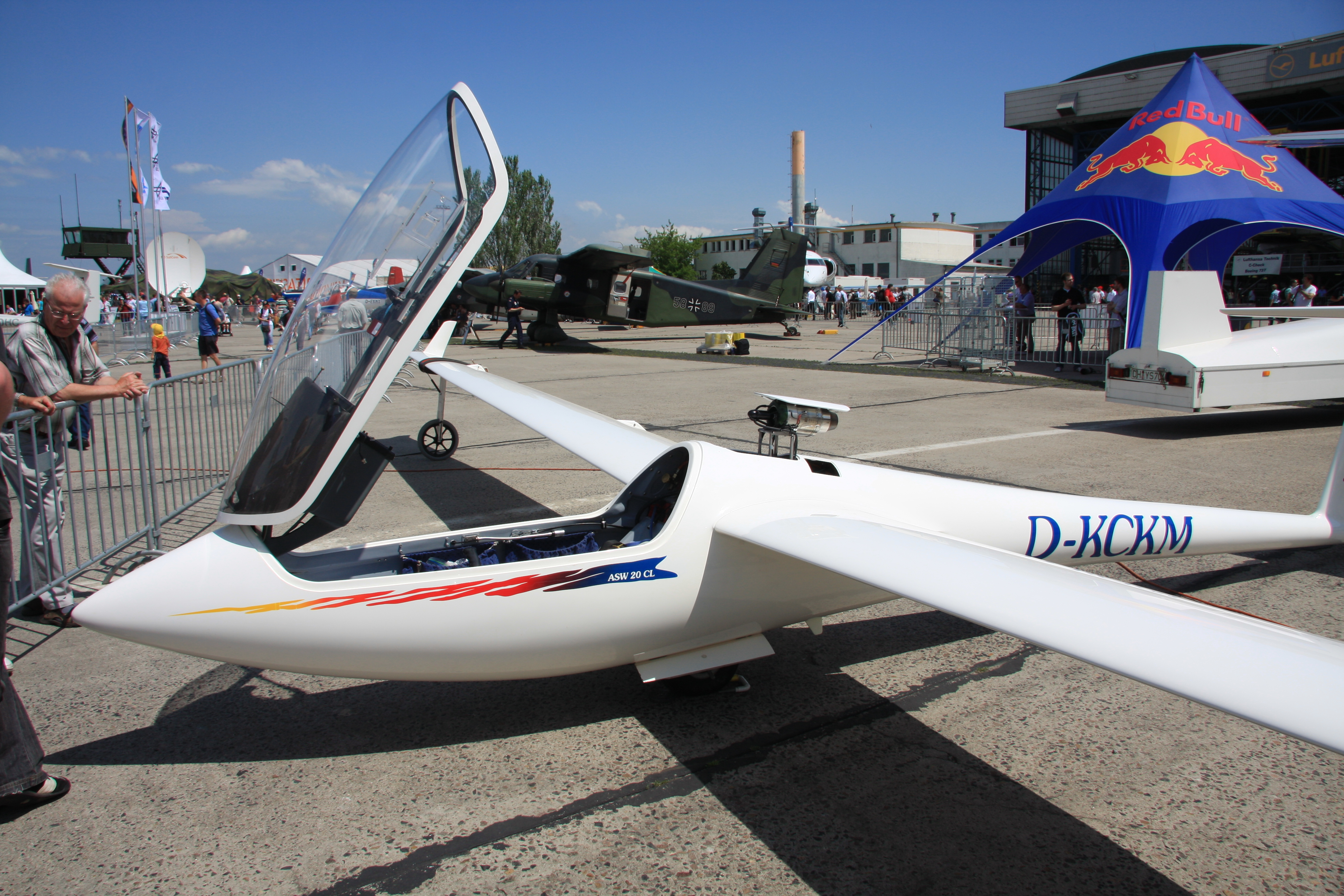 An ASW 20 CLT (picture taken during the International Air and Space Exhbition)